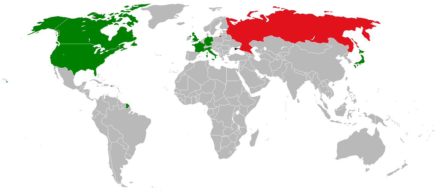 G7 map with Russia, which was eliminated in 2014.